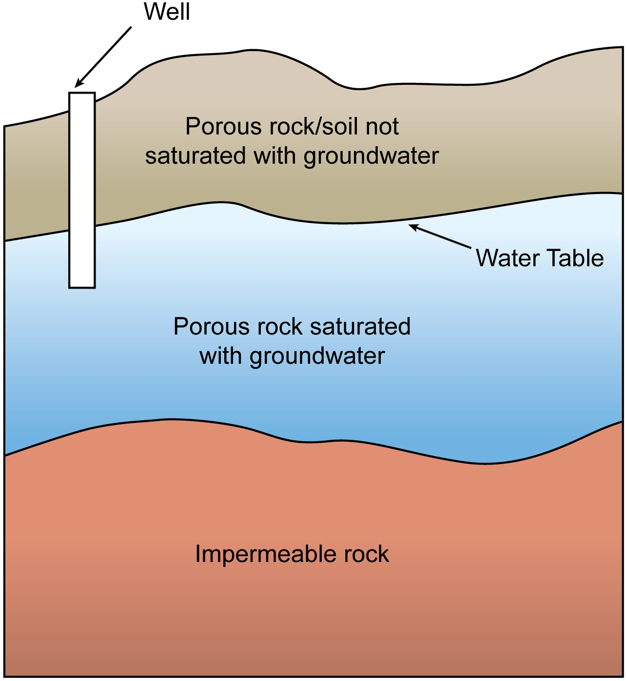 Groundwater is found beneath the solid surface. Notice that the water table roughly mirrors the slope of the land's surface. A well penetrates the water table.